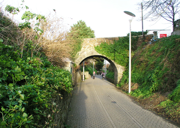 The old tram track connecting to the harbour at Newquay, Cornwall, England, United Kingdom. For more information see the Wikipedia article Treffry Tramways.